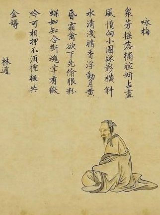 Song dynasty poet Lin Bu (967-1028).